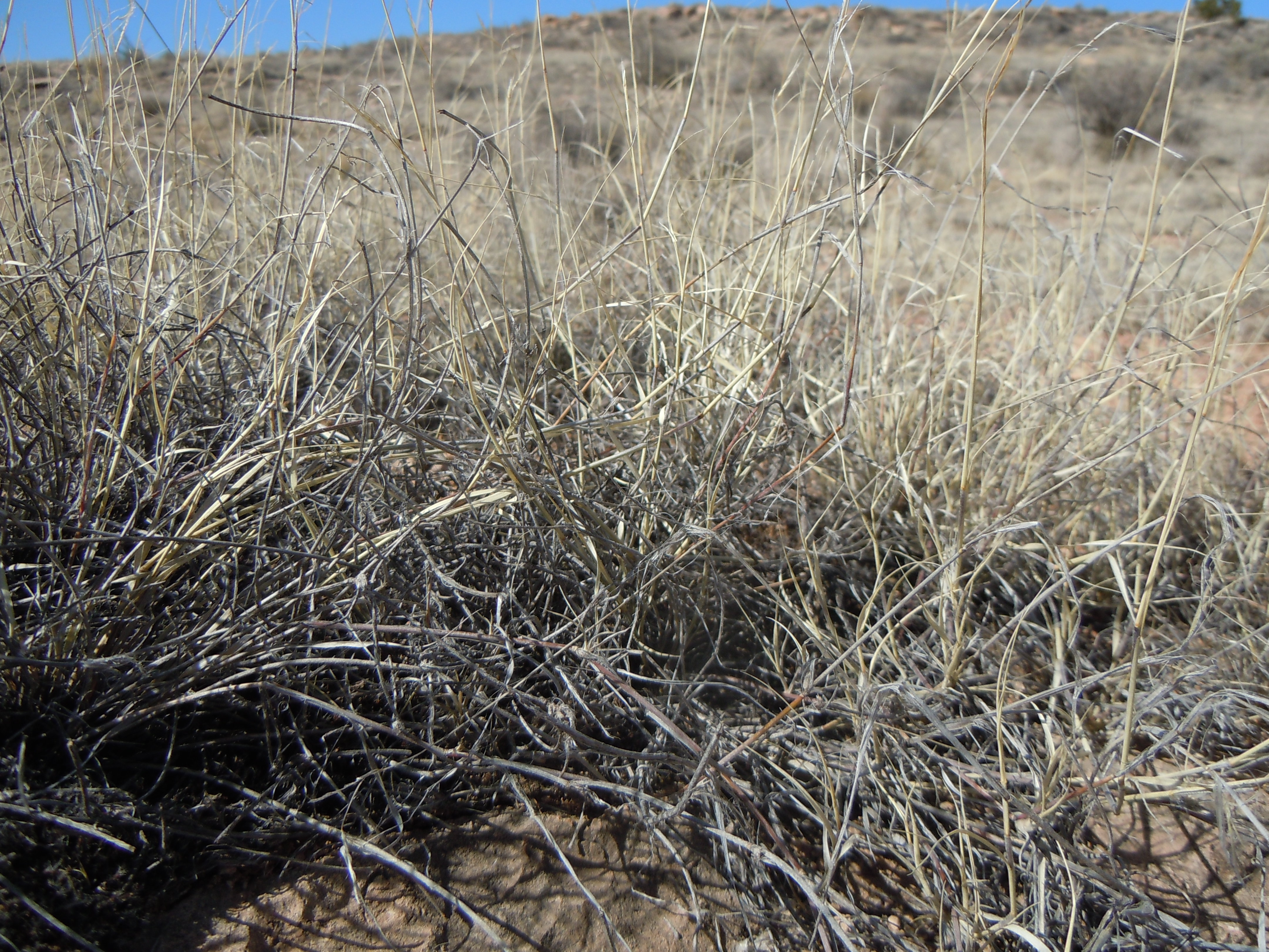 The distinctively woolly stems and especially stem bases (i.e., rooting nodes) are found throughout the year in this important rangegrass.